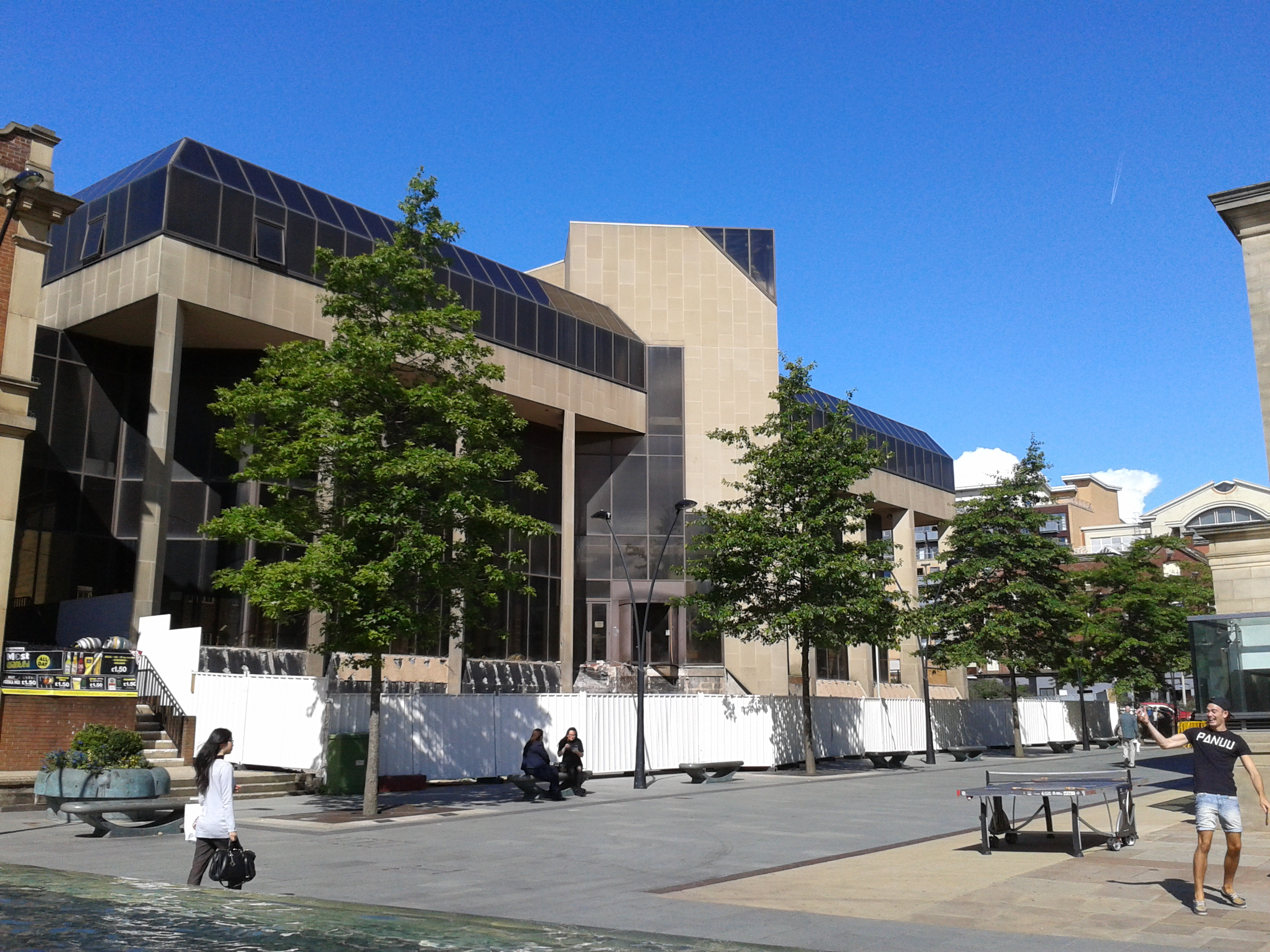 Former headquarters of the National Union of Mineworkers, off Barkers Pool in Sheffield